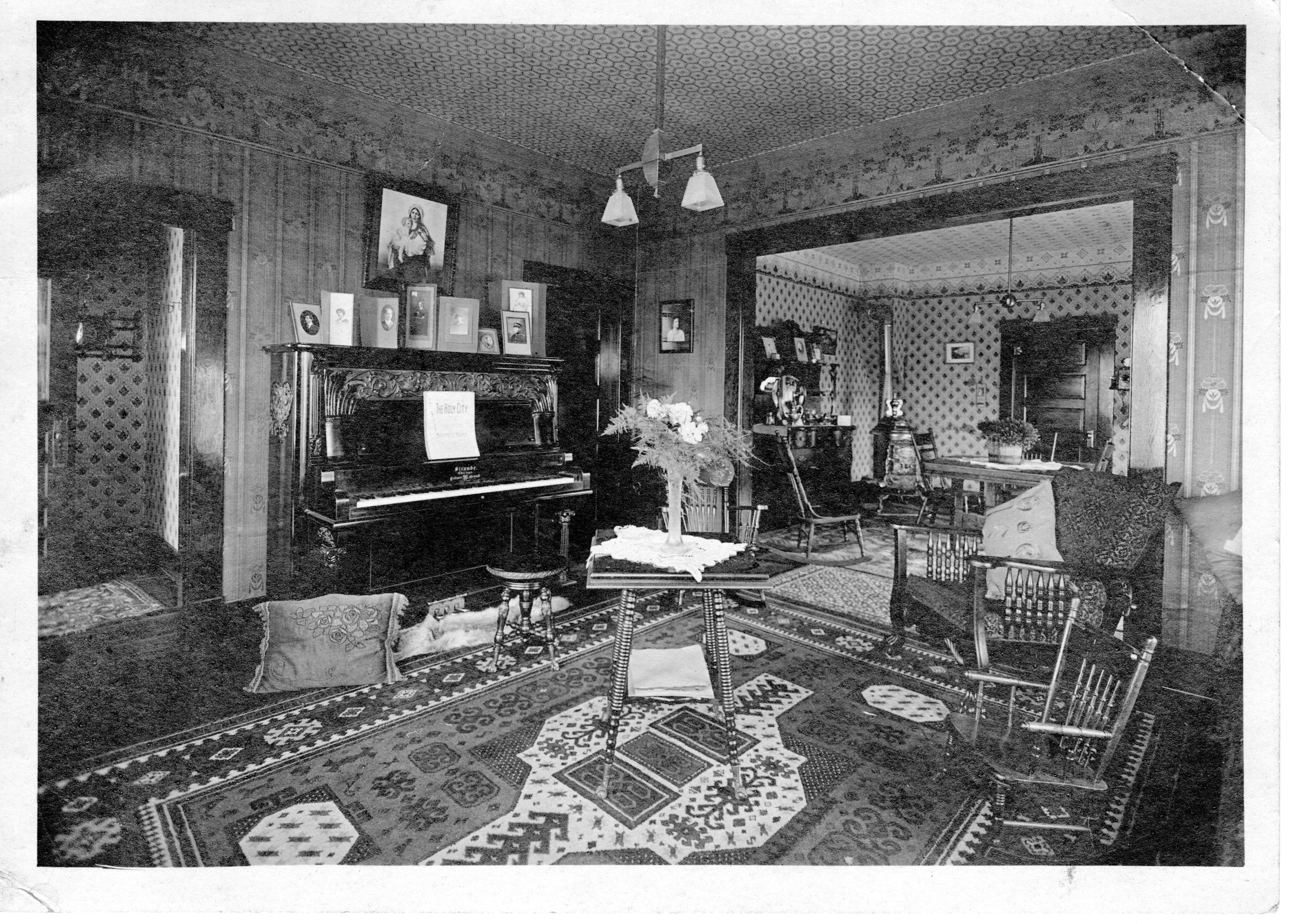 1901 Straube Cabinet Grand. I believe the home was in Fairhaven (Bellingham), Washington.